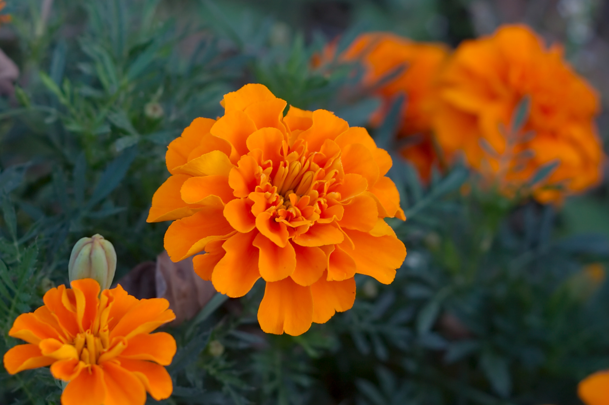 Marigold flowers (tagetes patula), taken in park in Urbana, Illinois